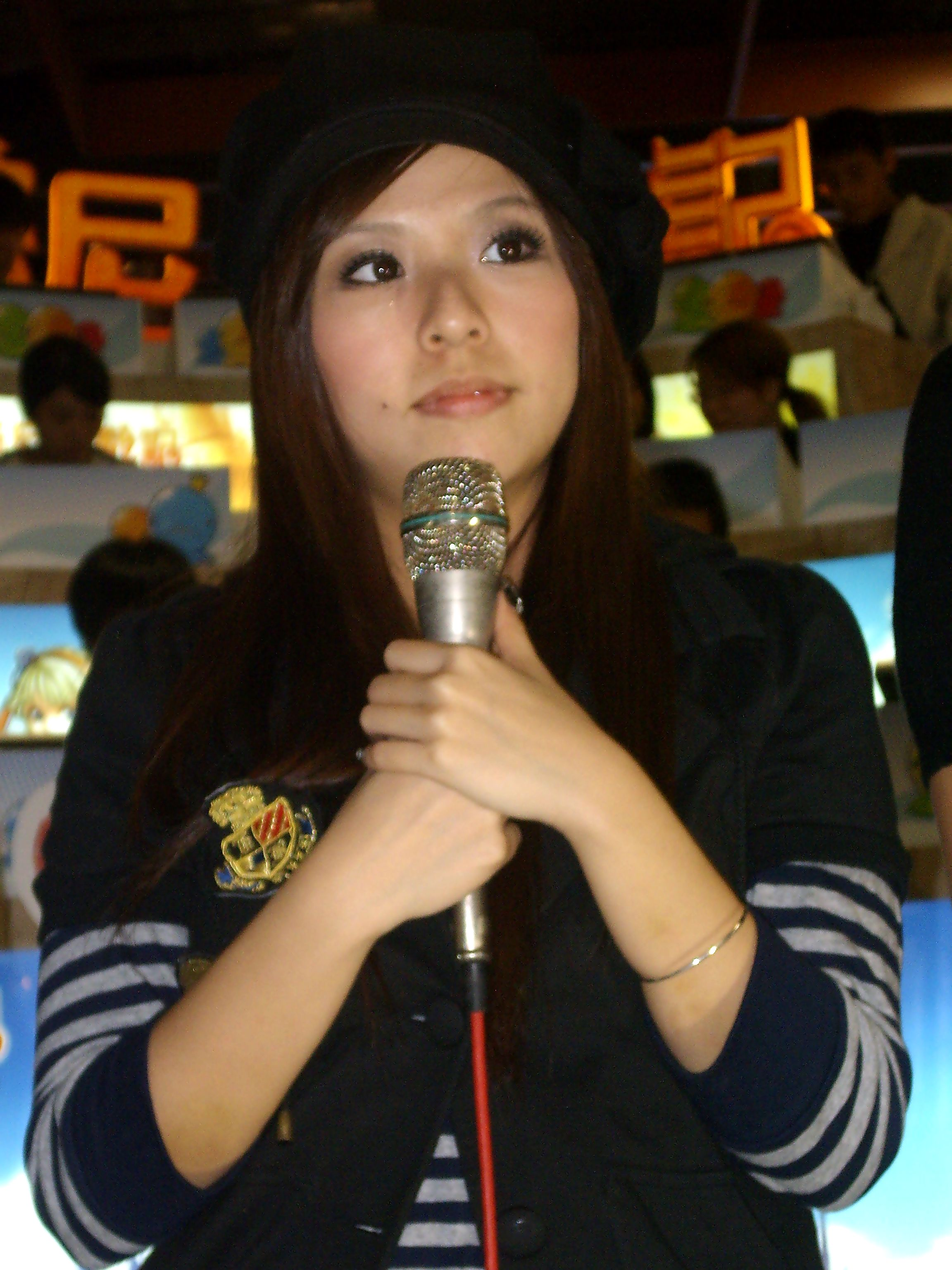 2007 Taipei IT Month: "MeiMei" Chieh-chi Kuo, a member from Hei Se Hui Mei Mei.Bân-lâm-gú: 2007-nî Tâi-pak Tsu-sìn-gue̍h: MeiMei(Kueh Tsiap-kî), Hik-siap-huē Bí-bî ê sîng-guân. 2007年臺北資訊月：MeiMei（郭婕祈），黑澀會美眉的成員。